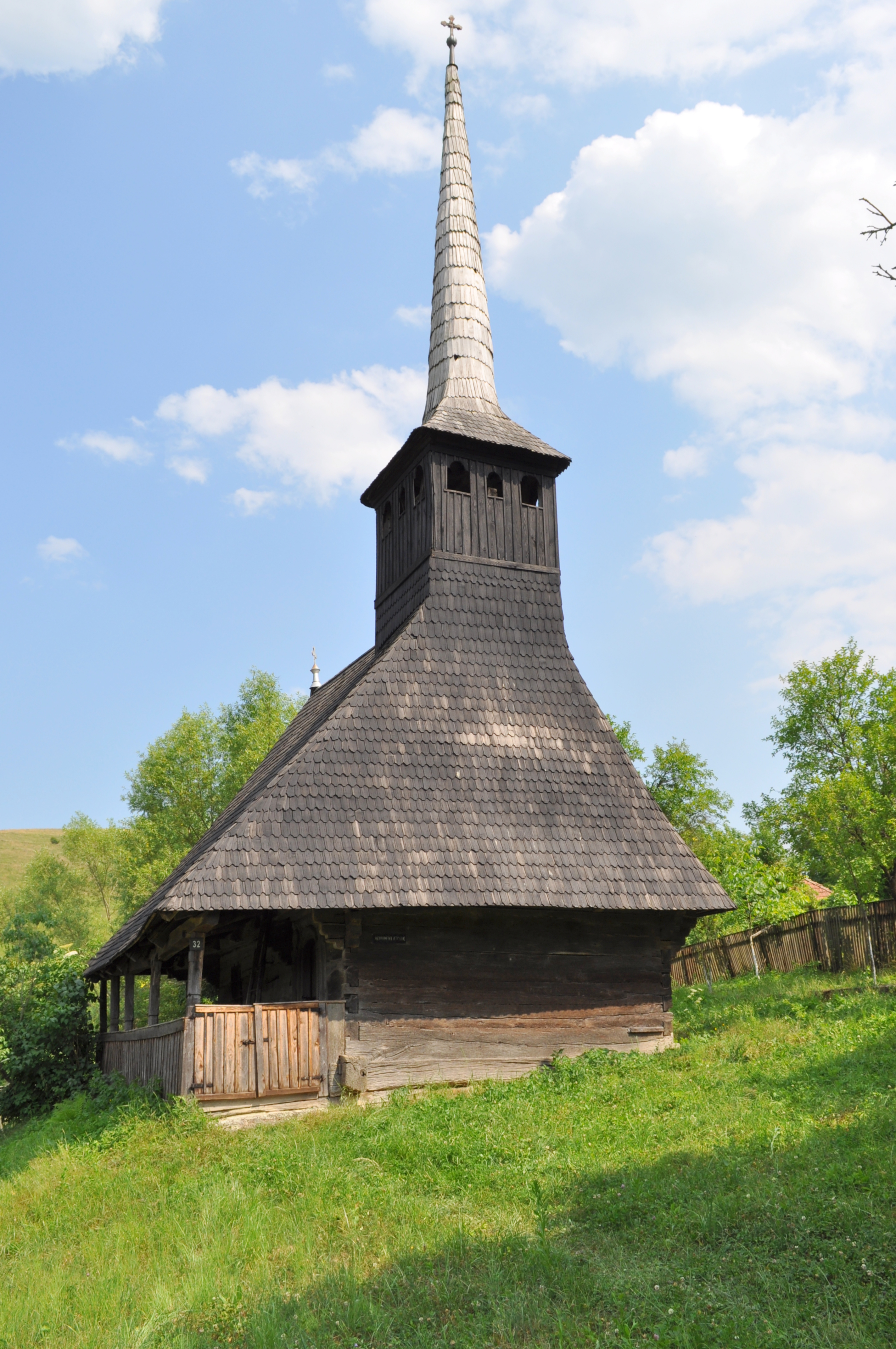 Wooden church in Cremenea, Cluj countyRomână: Biserica de lemn din Cremenea, județul Cluj